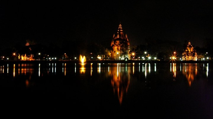 Sivasagar (previously spelled Sibsagar) (Assamese: শিৱসাগৰ Xiwôxagôr) is a town in the Sibsagar district in the state of Assam in India, about 360 kilometres (224 mi) north east of Guwahati. . It is the district headquarters of the Sivasagar district. Sivasagar is a heritage place in Assam famous for the monuments of Ahom kingdom. Now it is a multi-cultural town.